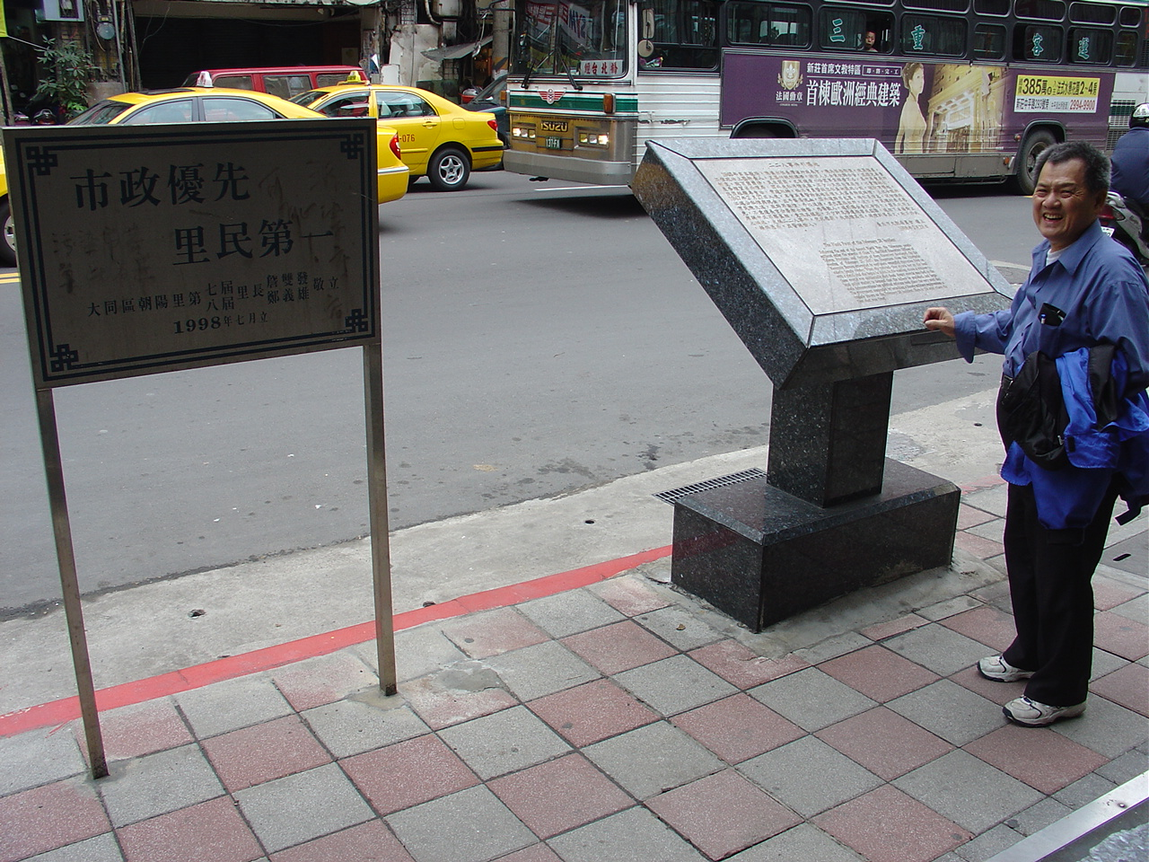 "The Flash Point of the February 28 Incident" stele was dedicated on February 28, 1998 by Taipei City Archives. It marks the exact spot where the first shot was fired that triggered the 228 Incident in 1947.[1] It reads in